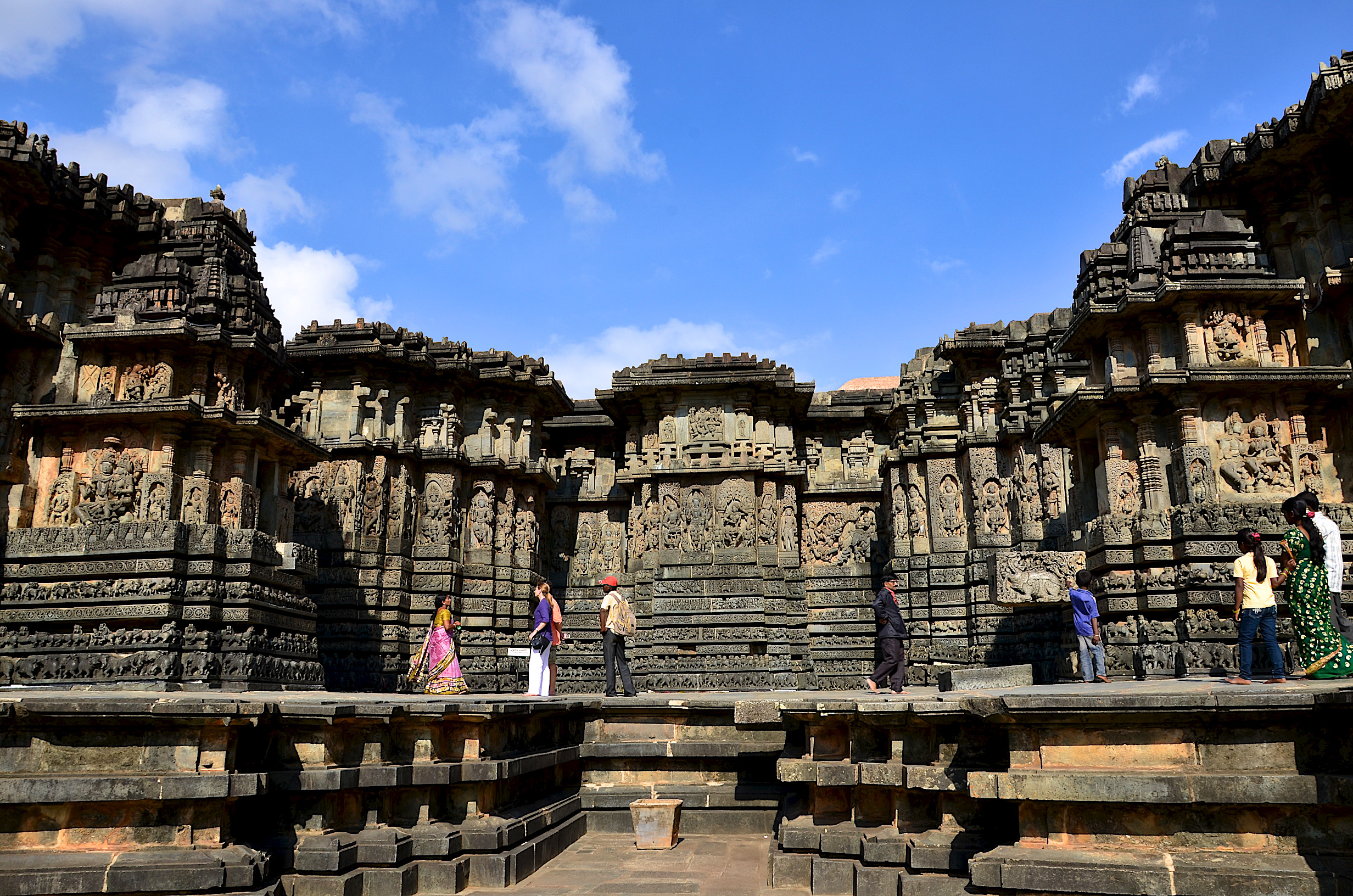 Carvings on the outer wall